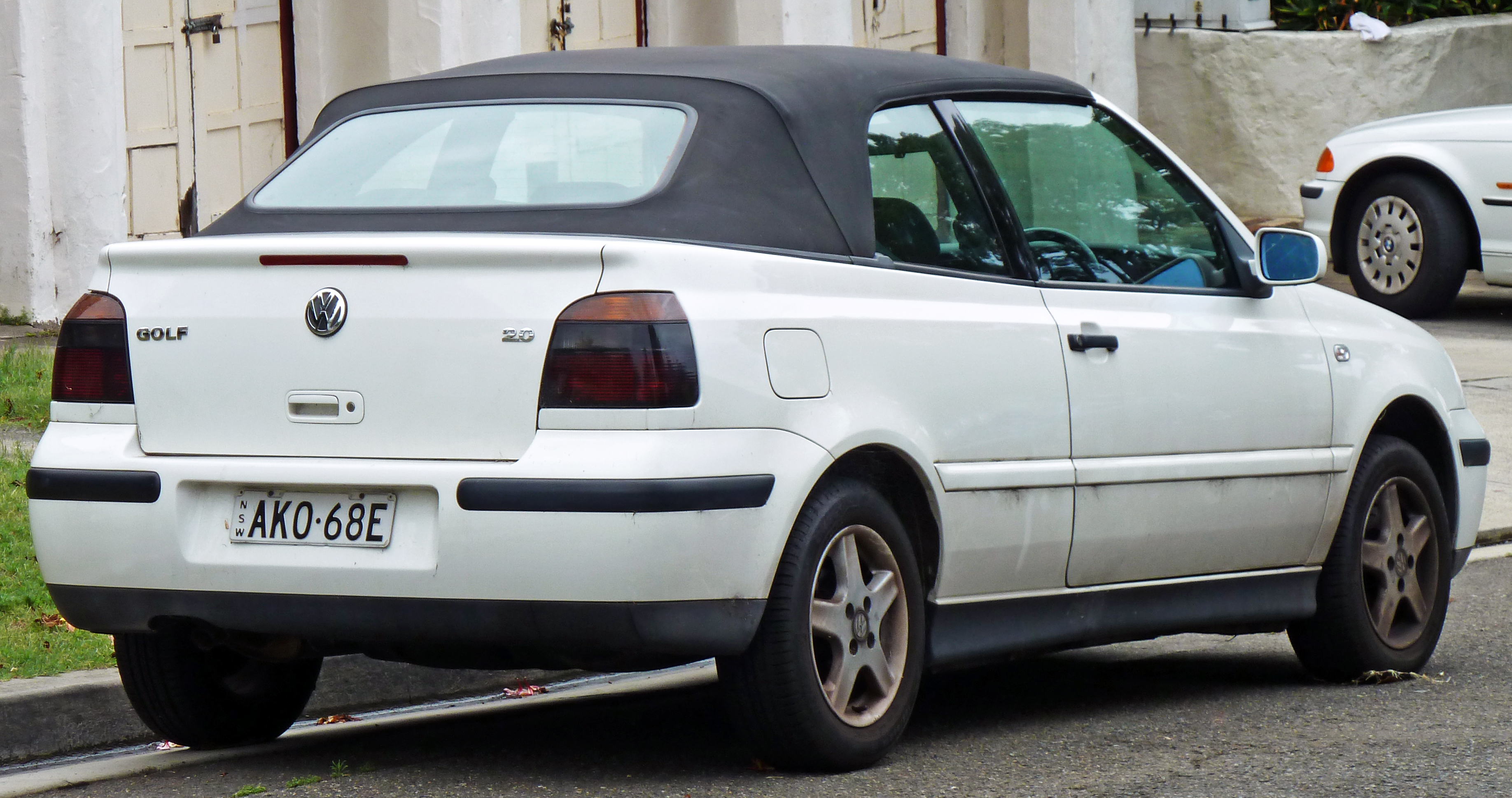 2001 Volkswagen Golf (1E) GL 2.0 convertible. Photographed in Bellevue Hill, New South Wales, Australia.